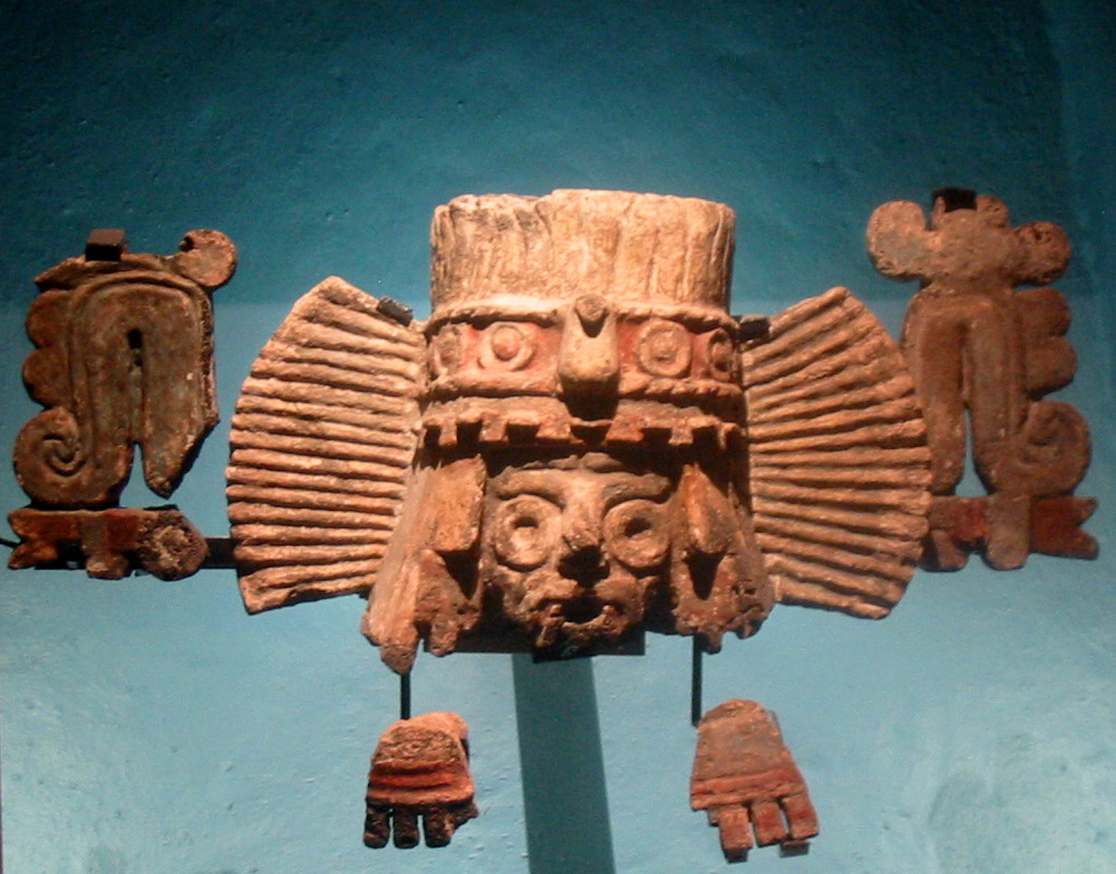 Graphically improved version of :en:Image:TlalocBrazier.JPG by User:Thelmadatter. She releasd the photo into the public domain.